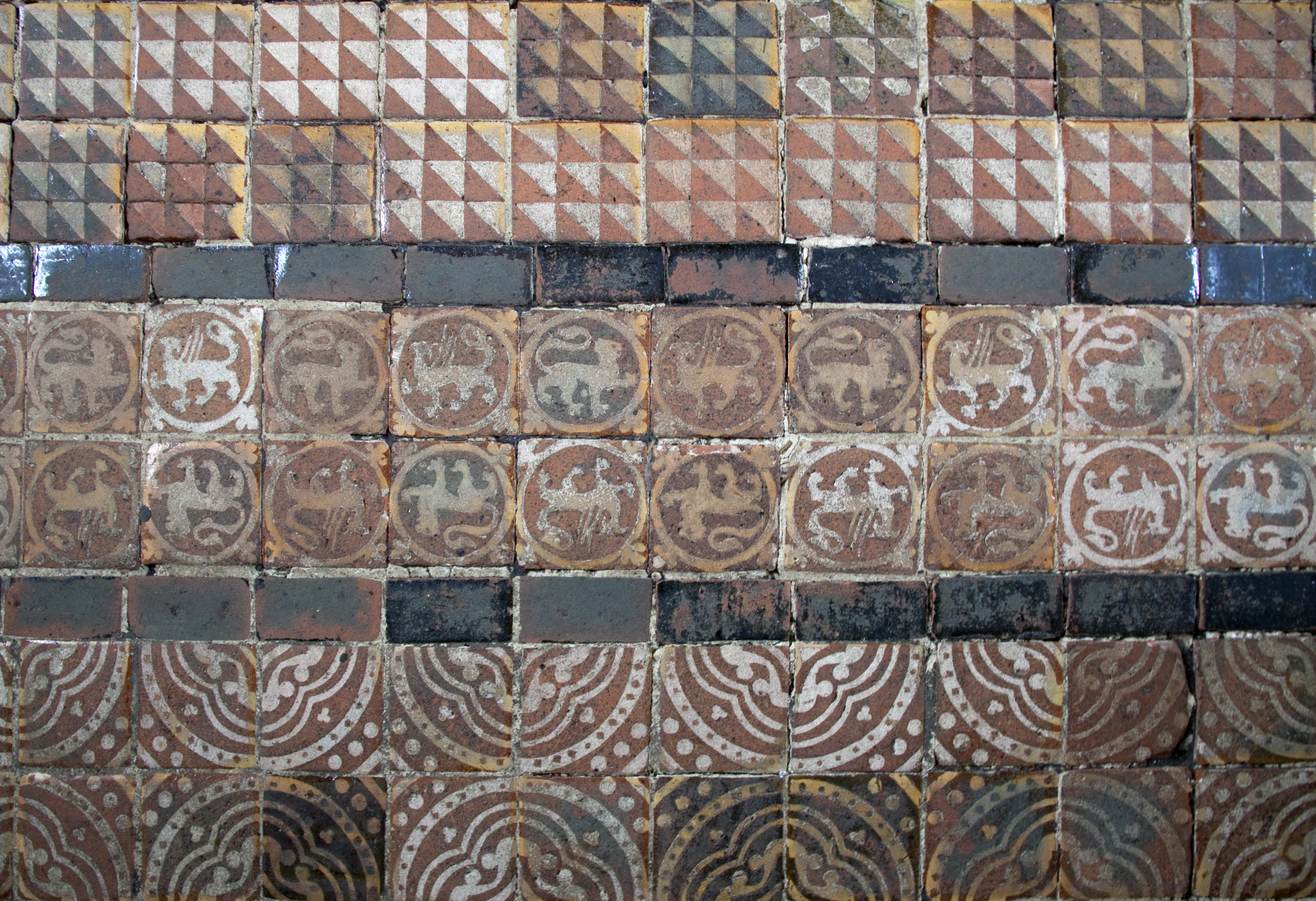 13th-century floor tiles, form part of the largest surviving spread of medieval decorated floor tiles inside any building in England and you can still walk on them.